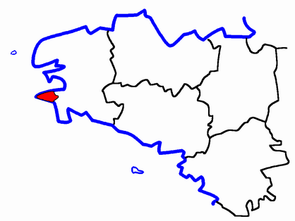 Description: Map for localisazion of cantons of Bretagne region in France Source: made by Hervé Tigier in april 2005 from another large map (published in 1990)